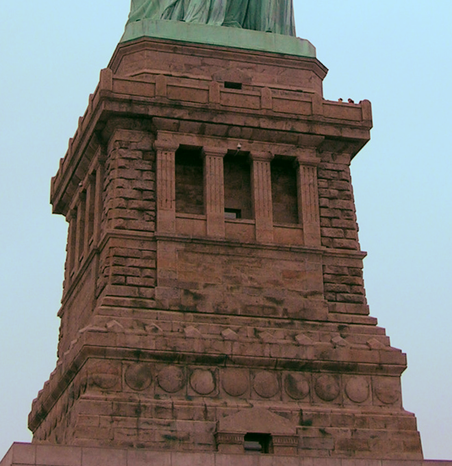 Pedestal of Statue of Liberty, cropped and color-enhanced from Image:DSCN2599.JPG